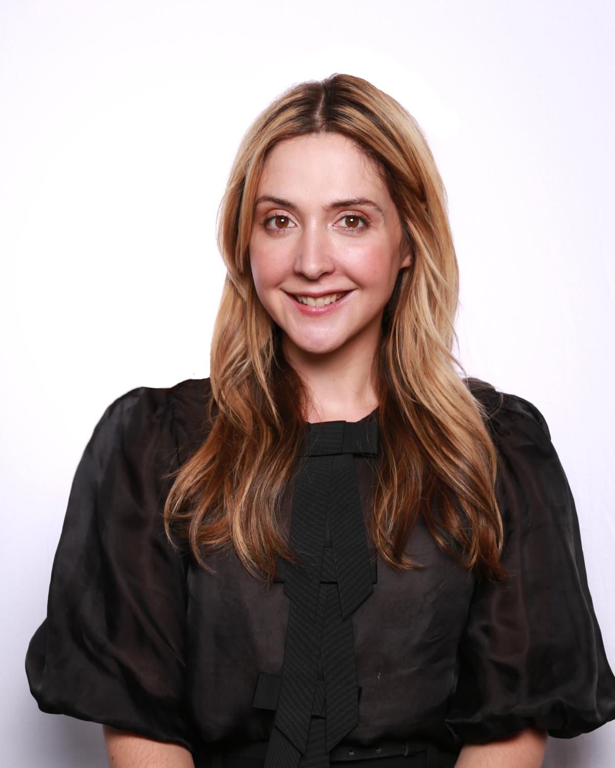 Alexia Bonatsos, nee Tsotsis, venture capitalist and technology journalist, photograph for Bumble. "I am wearing a black shirt and smiling harder than I’ve ever smiled before."